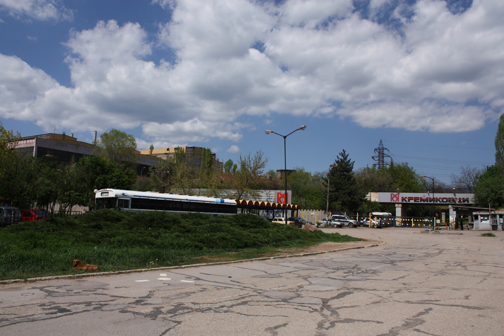 Kremikovtsi AD Steel works, Bulgaria